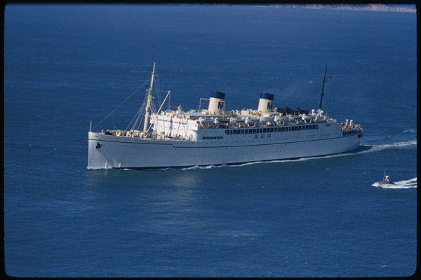 Description: Lurline outbound Creator: Cushman, Charles Weever, 1896-1972 View source image or order reproductions . More information on the commercial rights for this photo . Part of Charles W. Cushman Collection Indiana University, Bloomington. University Archives . Brought to you by IMLS Digital Collections and Content . Unrestricted access; use with attribution.